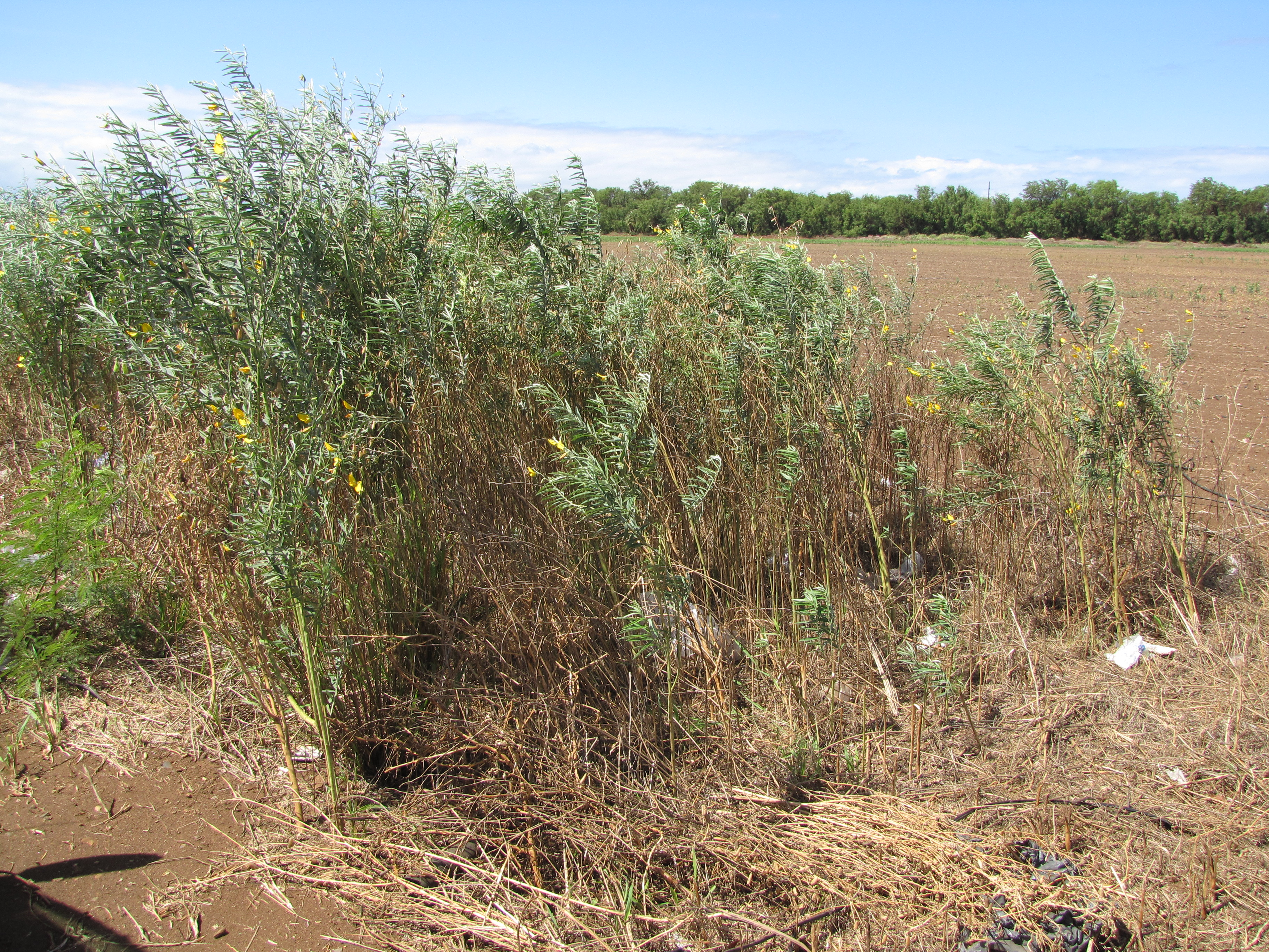 Crotalaria juncea (Sunn hemp) Habit next to seed corn at Mokulele Hwy, Maui, Hawaii. August 14, 2009 #090814-4343 Image Use Policy